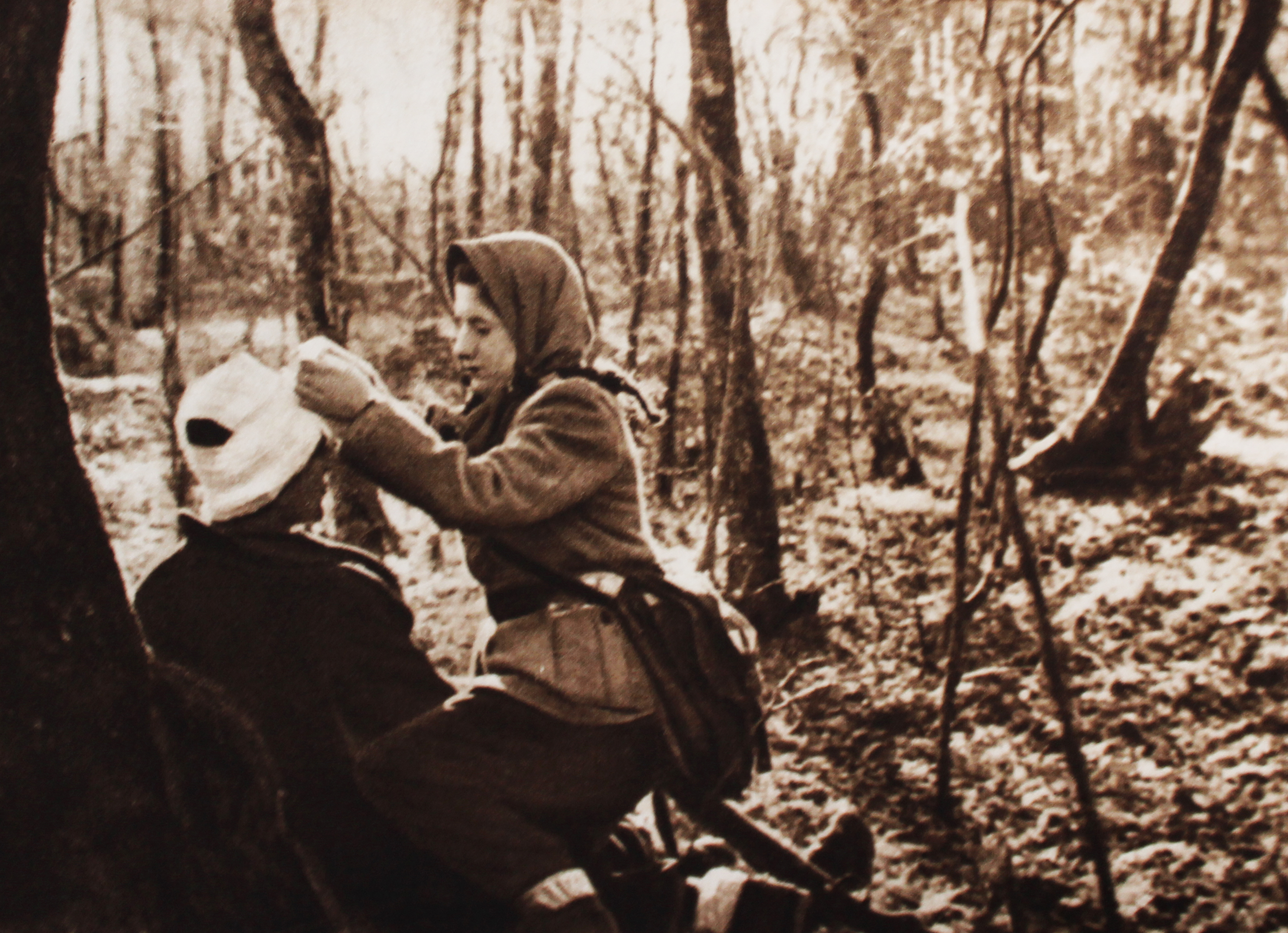 Photograph of a Yugoslav Partisan nurse treating a wounded Partisan (World War II)